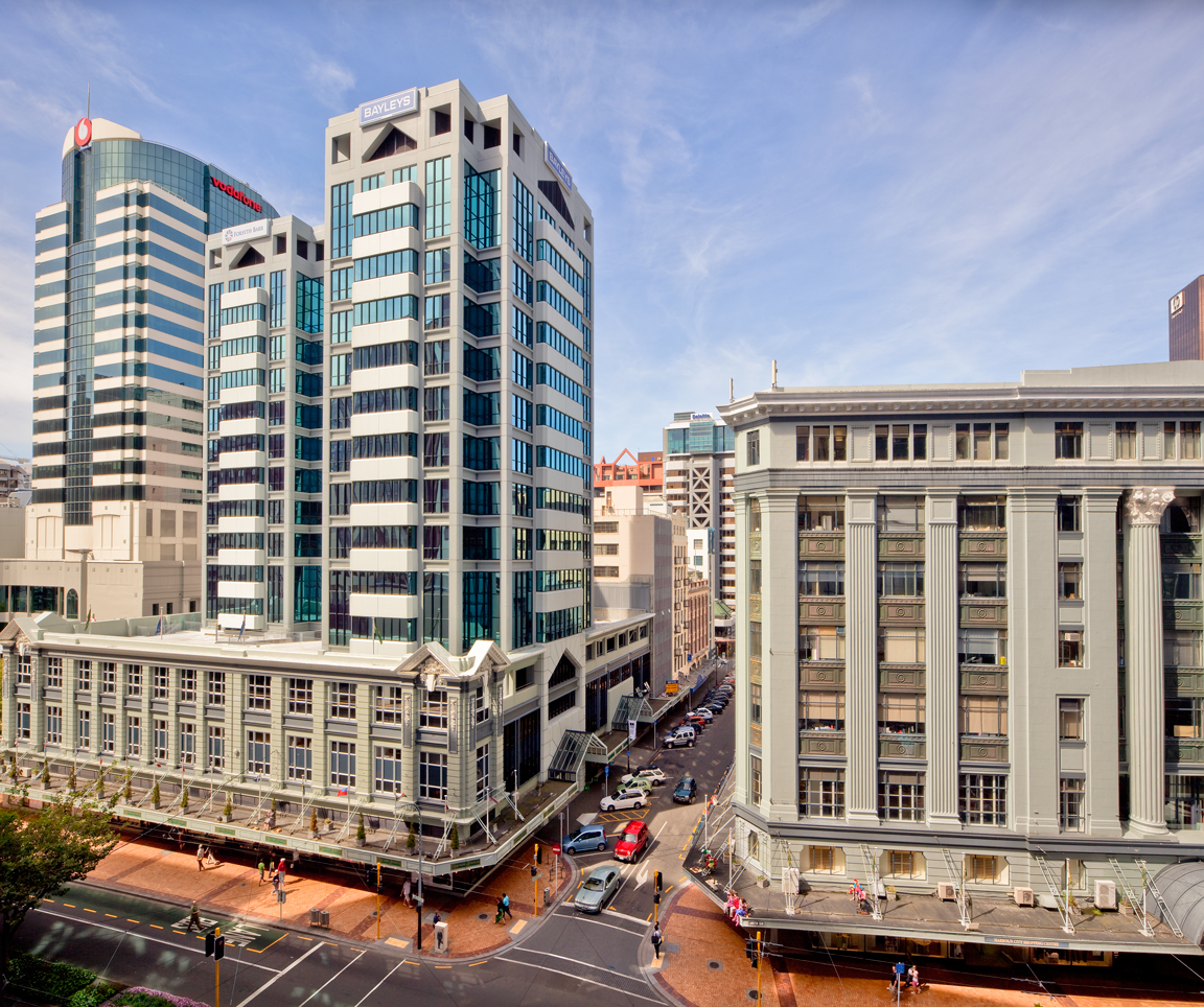 What I like about Wellington is the geography of the place, though the central area is flat, the hillsides are not far away. And around the back of various buildings one can find a view. I like to look down, and to photograph them is like making a map. DIC Building on the right; Kirkcaldie & Stains is the historic building on the left.